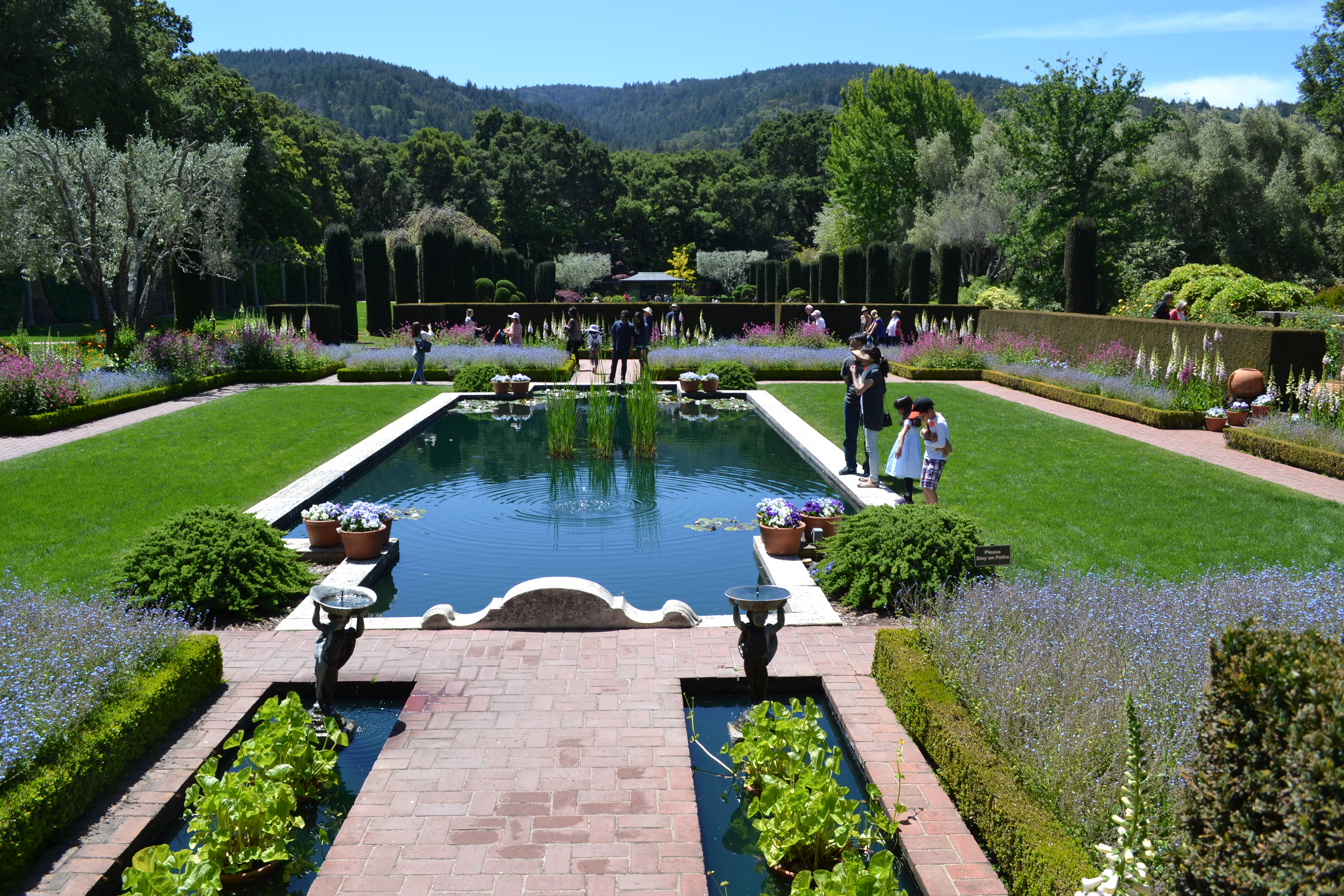 Filoli